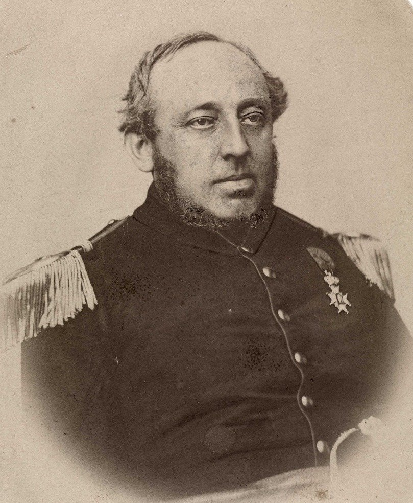 Norwegian industrialist Oluf Onsum (1820–1899). Photo shows him in a military uniform, as he wore 1863–1870, as leader of the city armed civilian reserves.